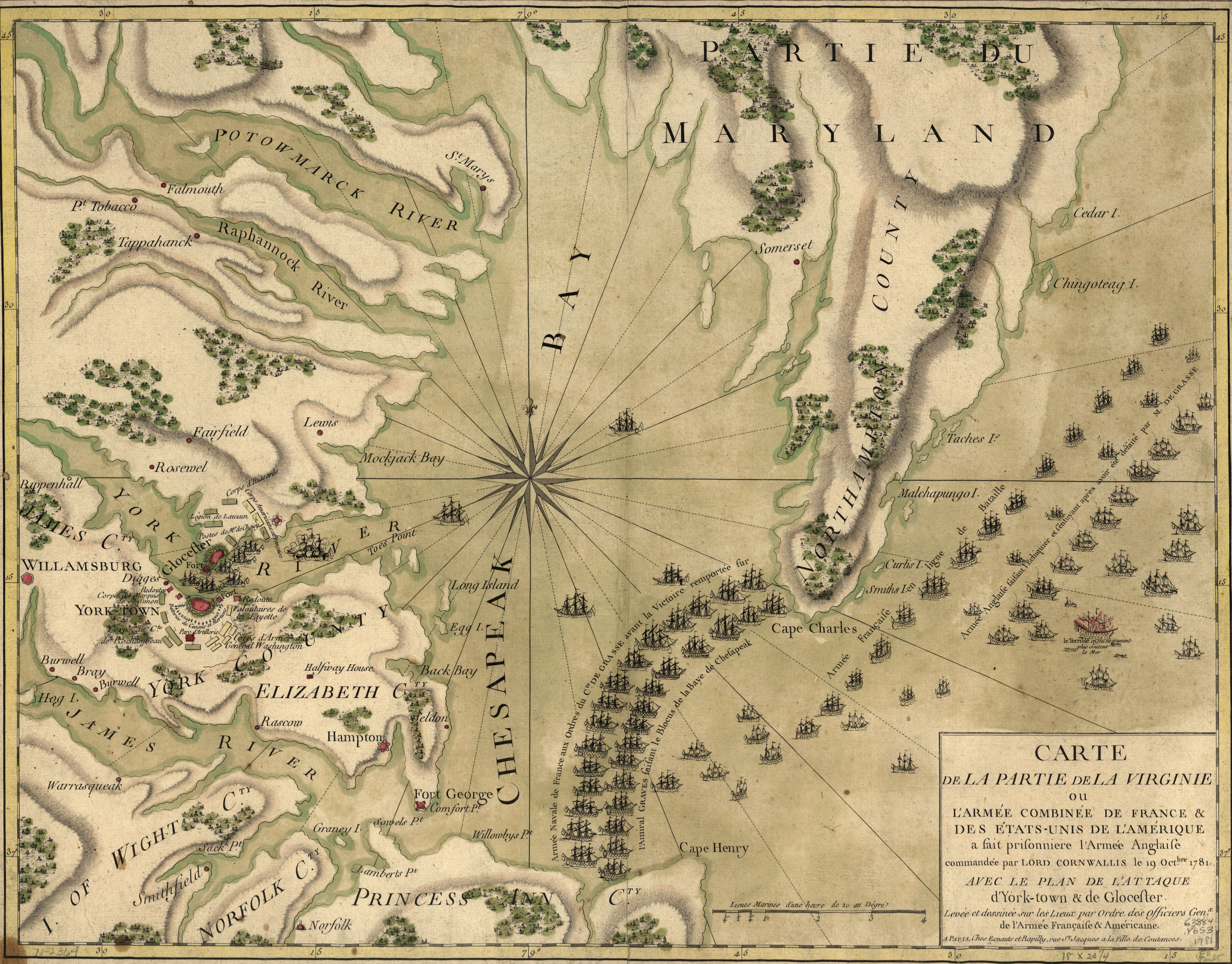 Scale ca. 1:215,000. Hand colored. Relief shown by hachures. Situation of the fleets shown pictorially. LC Maps of North America, 1750-1789, 1462 Available also through the Library of Congress Web site as a raster image. Vault AACR2: 651/1